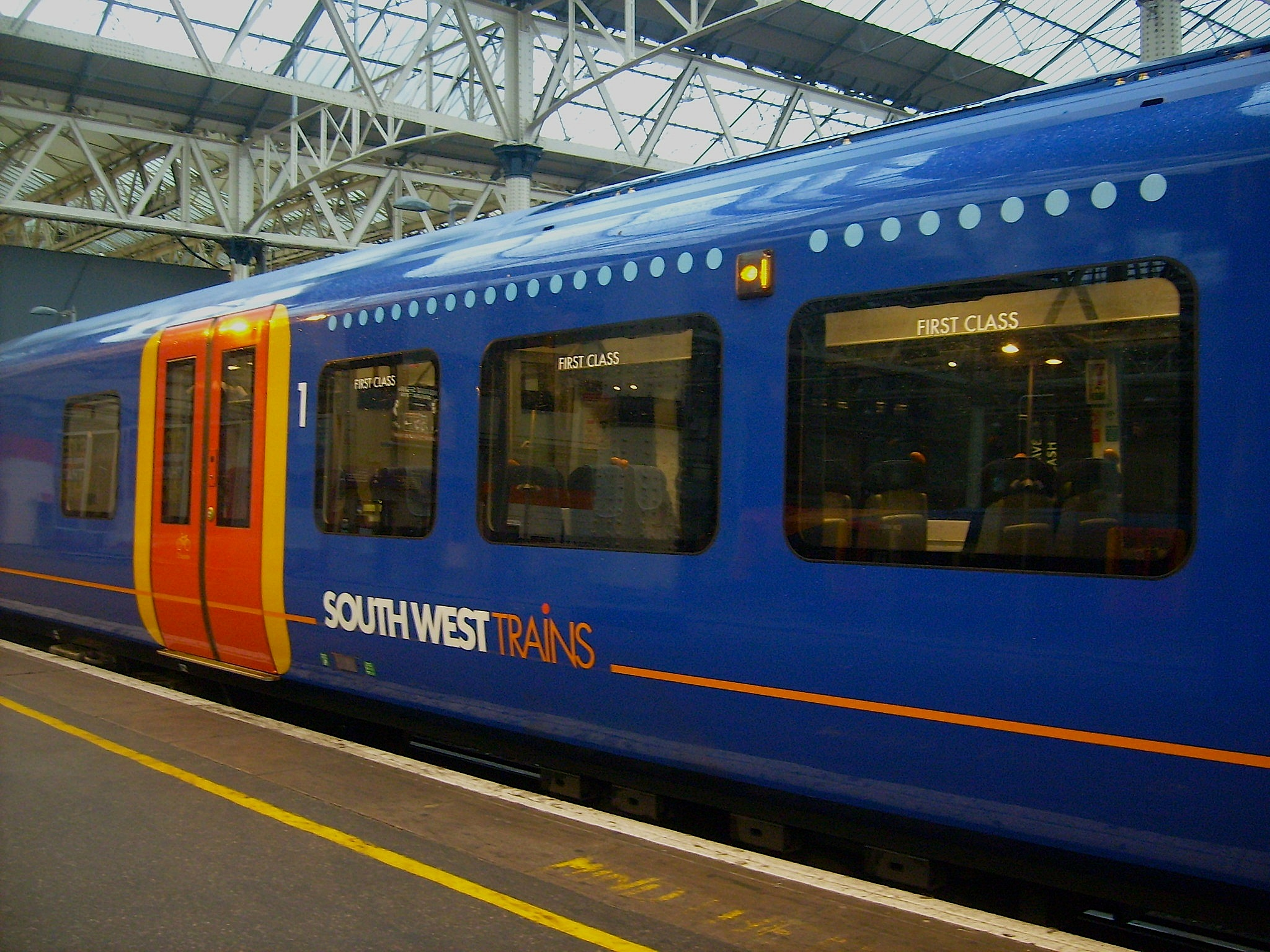 First Class exterior bodyside livery on South West Trains Class 450/0